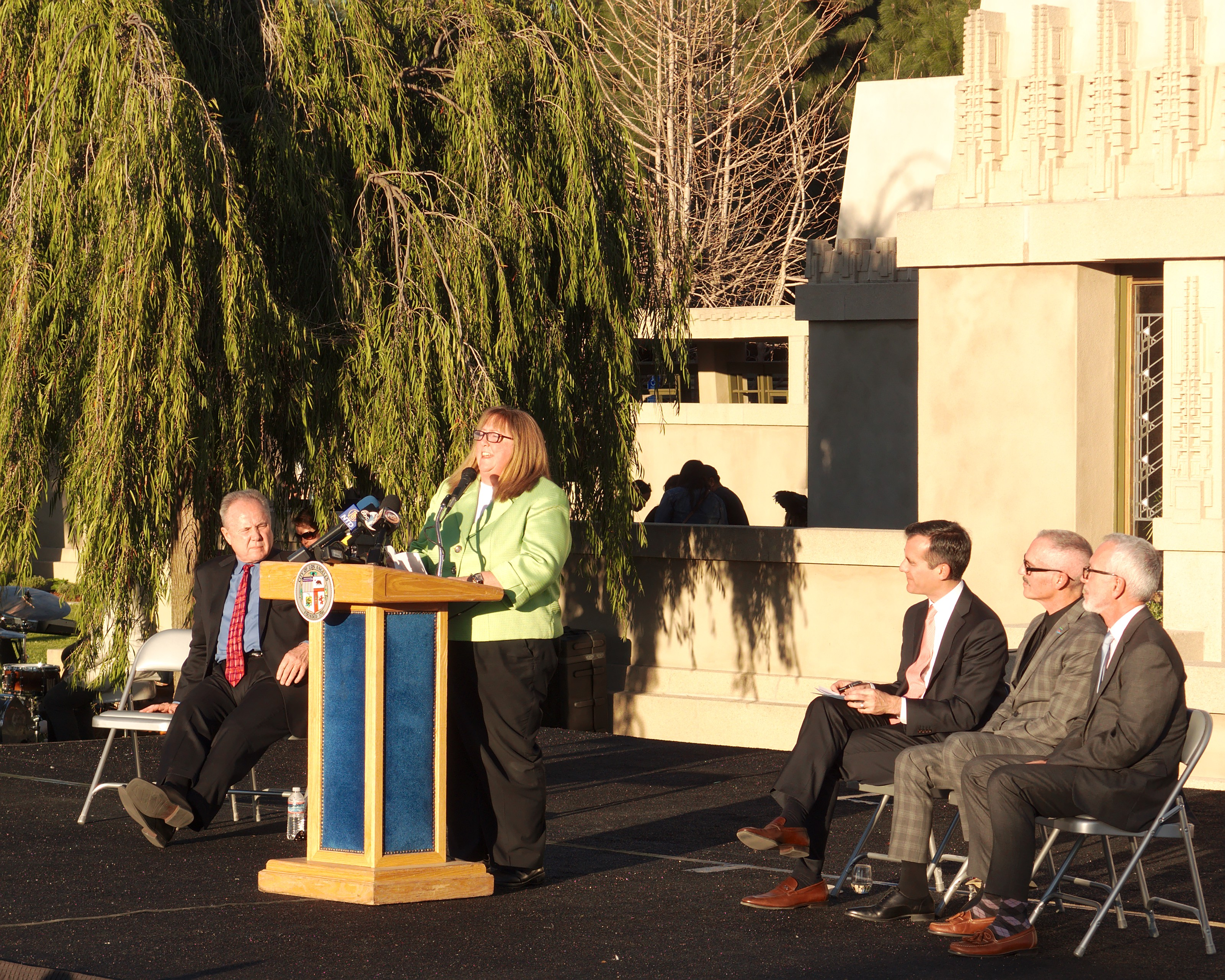 Executive director of the Los Angeles Conservancy Linda Dishman speaks at the ribbon cutting ceremony for the newly renovated Hollyhock House. Seated, from left to right: Councilmember Tom Labonge, Mayor Eric Garcetti, Councilmember Mitch O'Farrell and curator Jeffrey Herr.